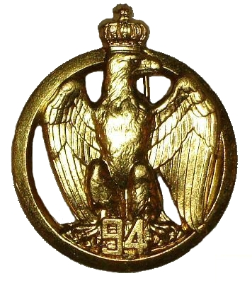 It was brought for the first time by the commandos hunting in Algeria, he later became the distinguished tradition of the 94th Infantry Regiment.